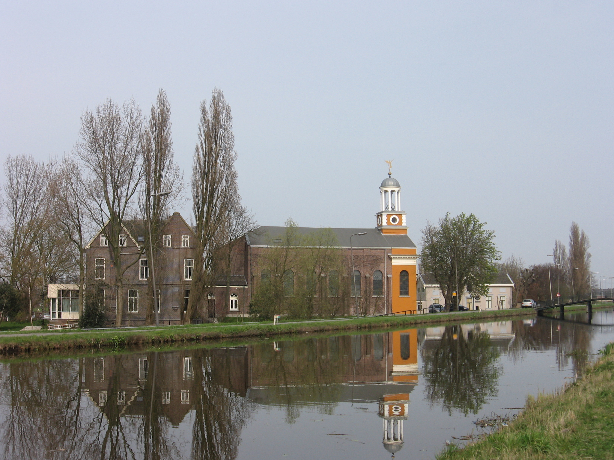 Hodenpijl, Vlaardingse vaart